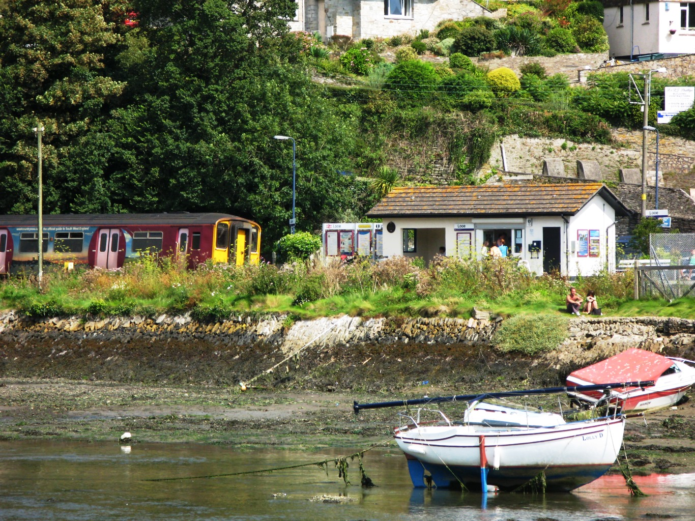 150238 at Looe railway station, Cornwall.